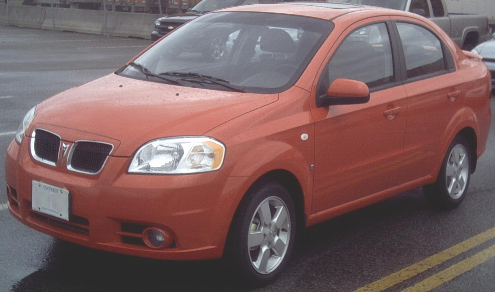 2007 Pontiac Wave sedan photographed in Montreal, Quebec, Canada.